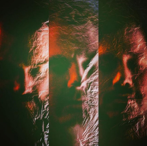 Band photo